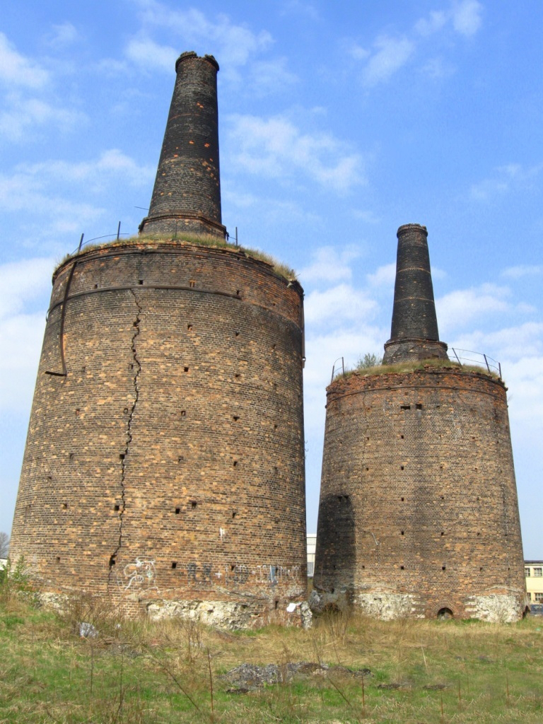 Lime furnaces in Rudniki